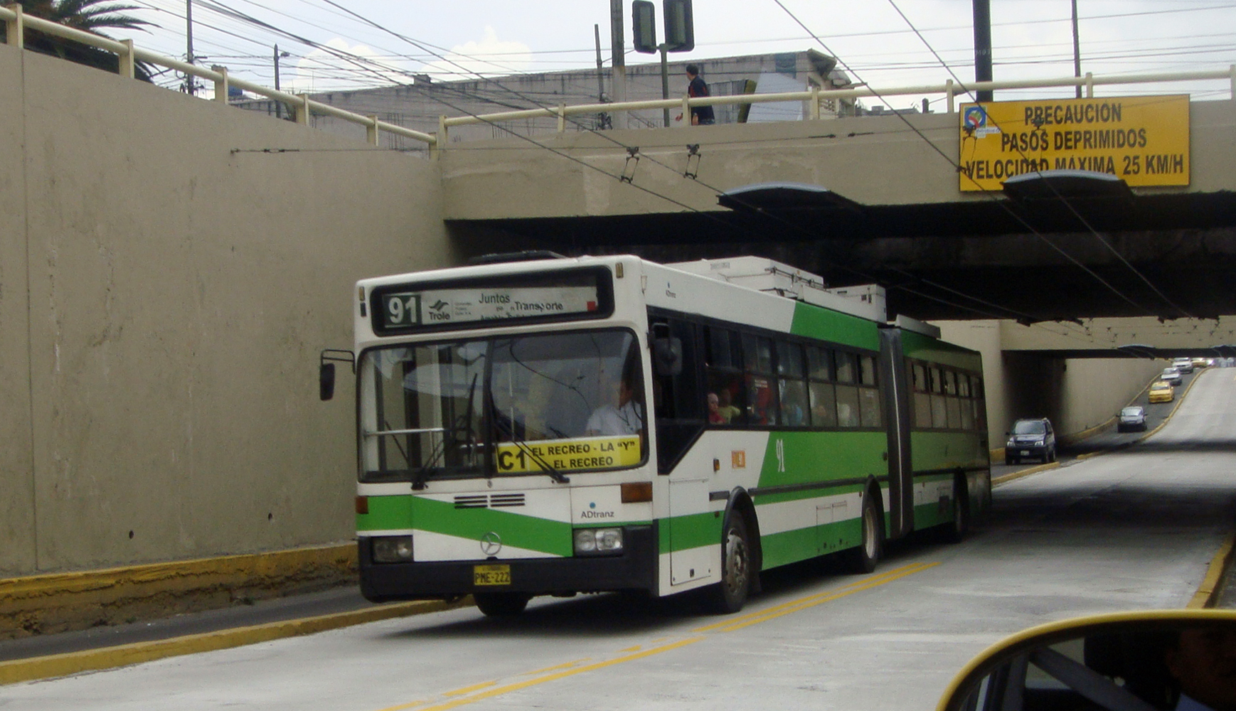 Quito's trolleybus running on exclusive BRT lanes with underpass crossings. In this photo, C1 is the route number; 91 is only the fleet number of this specific vehicle.